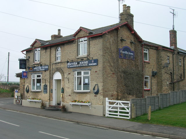 Bosville Arms, Rudston, East Riding of Yorkshire, England.